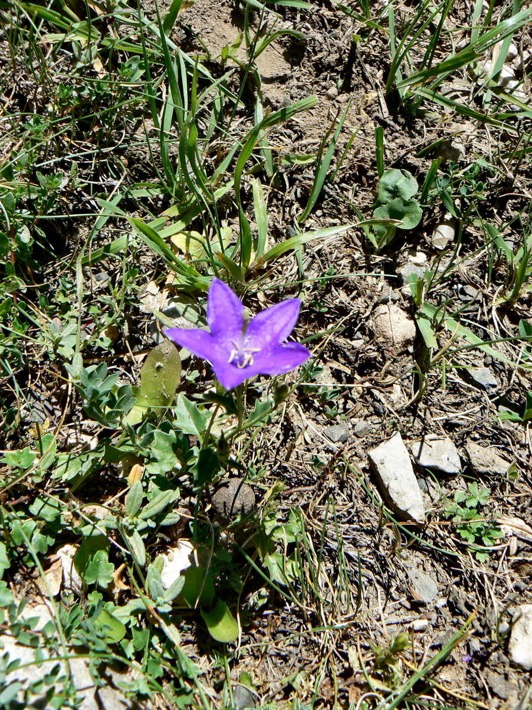 Campanula arvatica, Picos de Europa, Spain